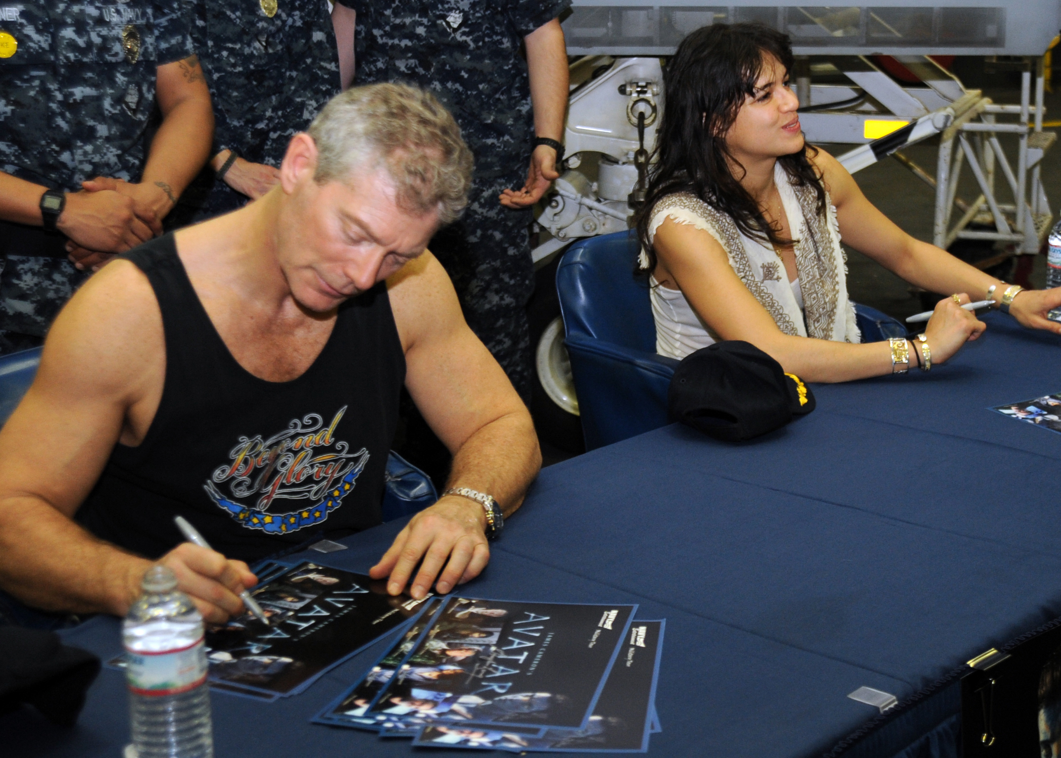 Actors Stephen Lang and Michelle Rodriguez, from the film Avatar, sign autographs for sailors aboard aircraft carrier USS Dwight D. Eisenhower (CVN-69) as part of a special Navy Entertainment tour Jan. 27, 2010, in the Red Sea.